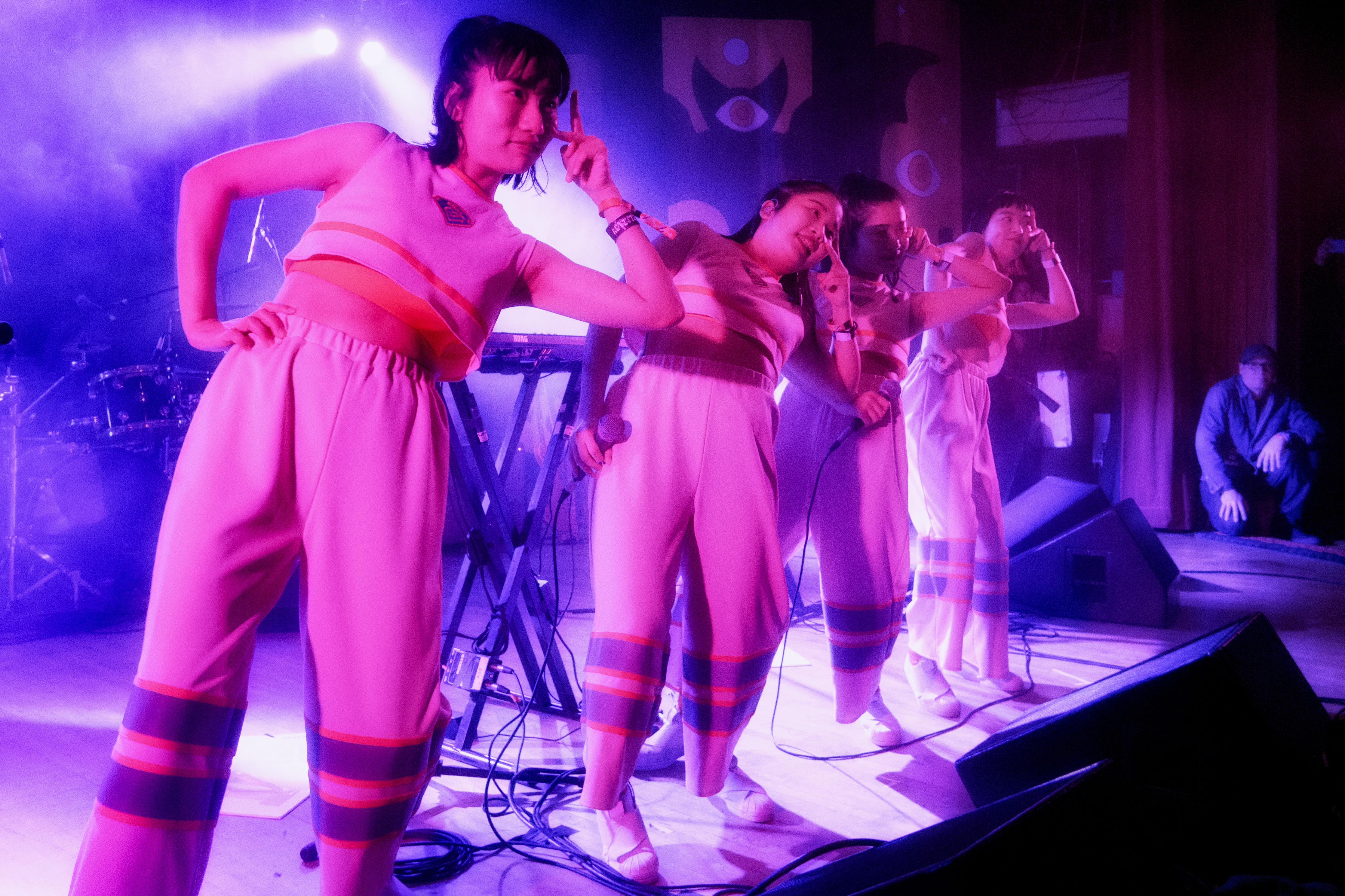 Chai at the Treefort Music Fest in Boise, Idaho on March 22, 2019.